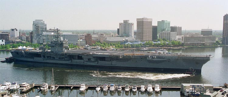 The Nimitz class aircraft carrier USS Theodore Roosevelt transits the Elizabeth River after spending eleven months in the Norfolk Naval Shipyard for repairs.